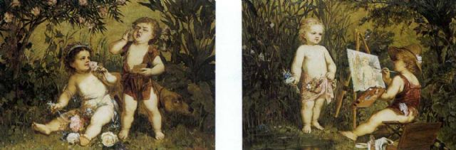 Frolicking Putti